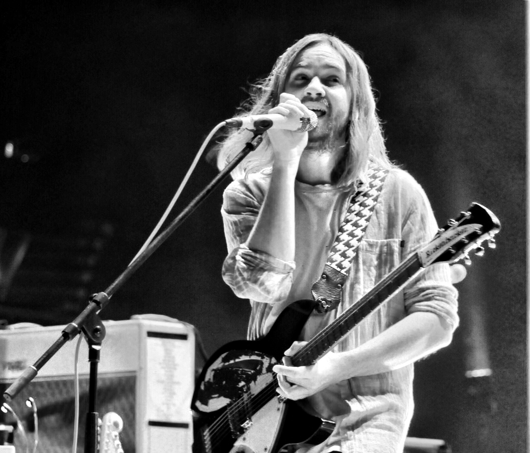 Tame Impala performing at Red Rocks Amphitheatre on August 31, 2016 in Denver County, Colorado.